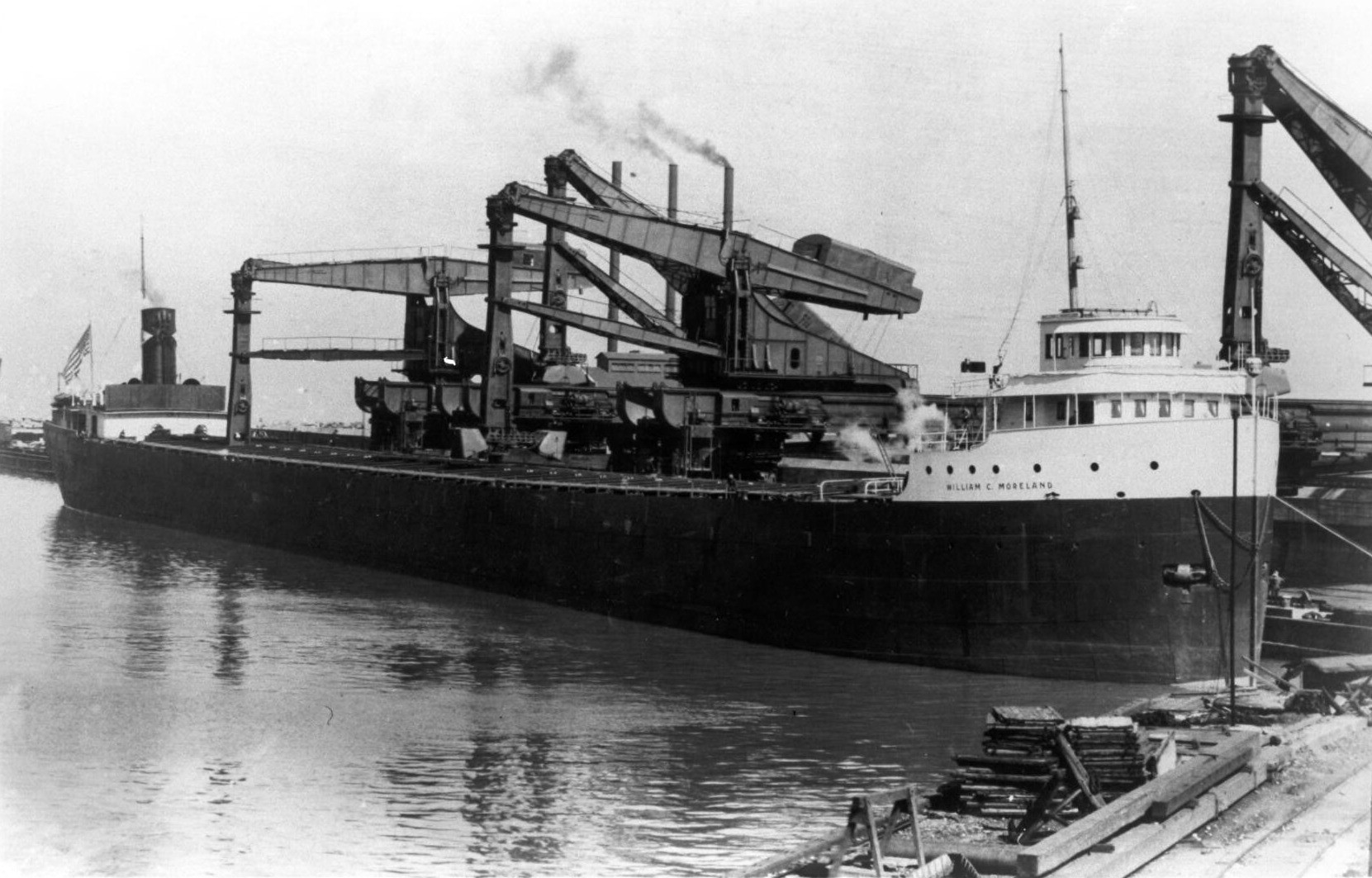 The steamer William C. Moreland before she sank